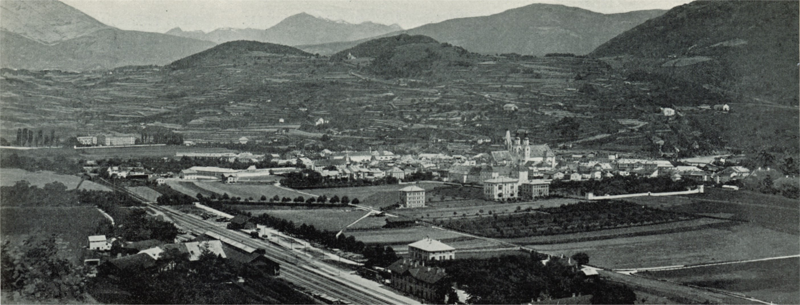 The city of Brixen in Southern Tyrol around 1898